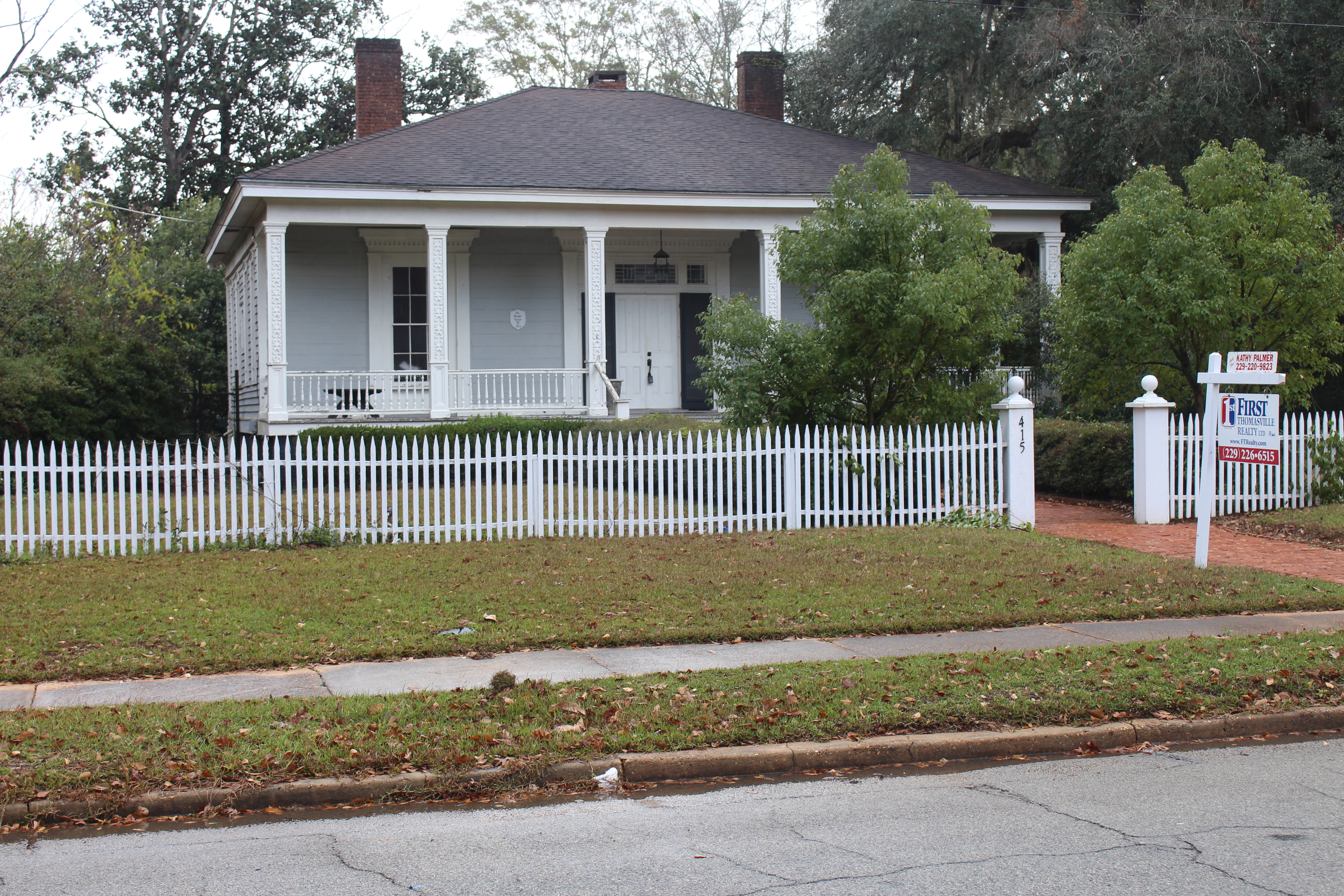 Wright House, antebellum cottage in Fletcherville Historic District, 415 Fletcher St., Thomasville, Thomas County, Georgia